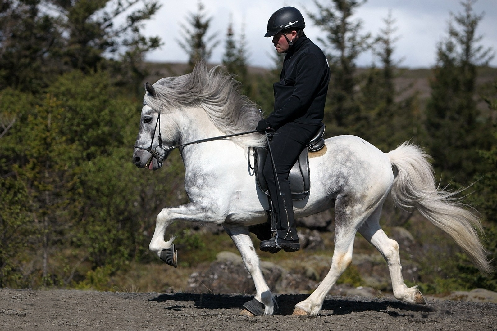 Icelandig horse tolting